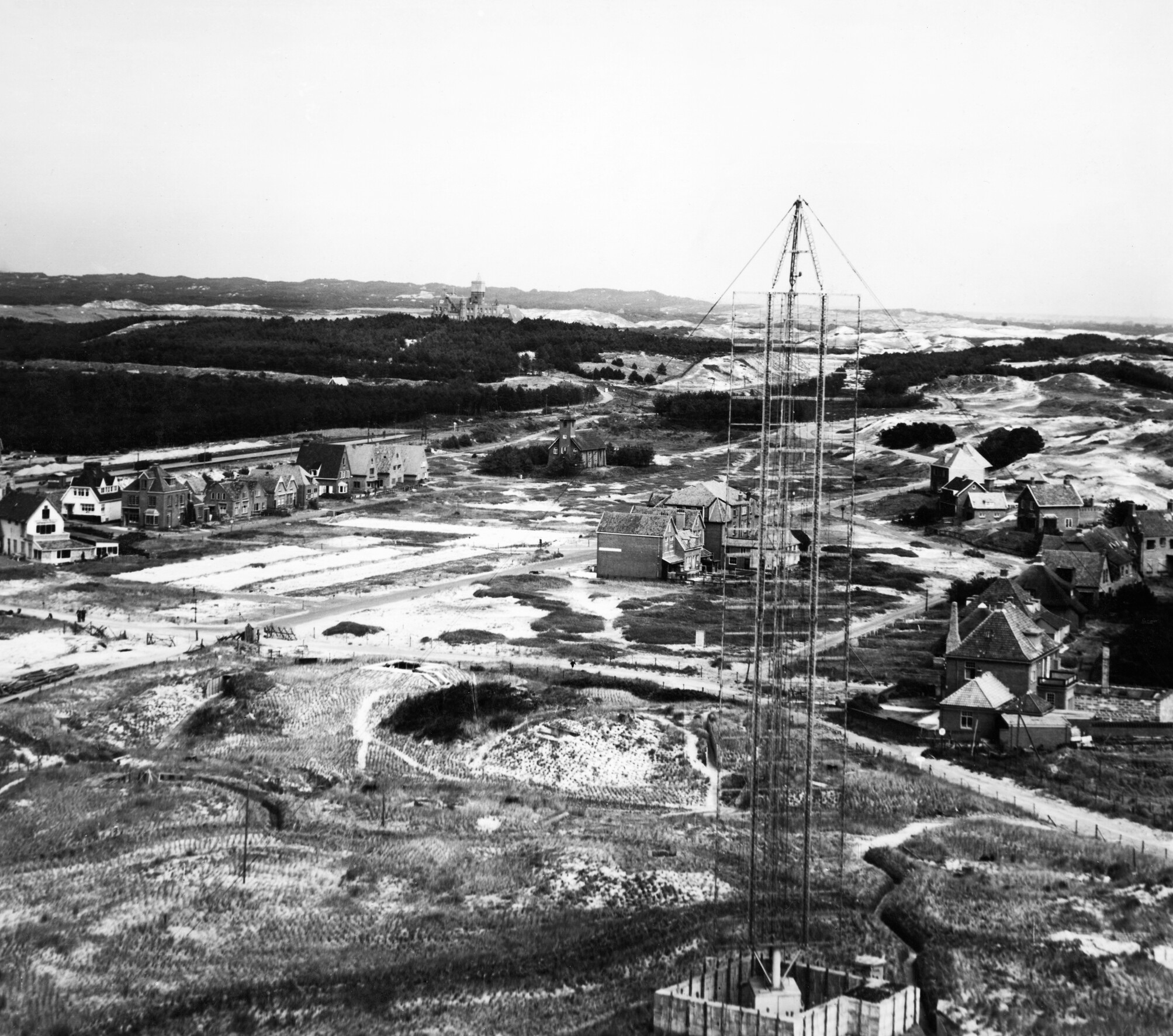 Low-level oblique aerial-reconnaissance of a German FuMG 402 Wassermann long-range early warning radar site at Bergen-aan-Zee, Holland. Taken at an altitude of 30 m with a forward-facing Type F.52 (14-inch lens) aerial camera in the nose of De Havilland Mosquito PR.XVI, MM355, flown by the Commanding Officer of No. 540 Squadron RAF.